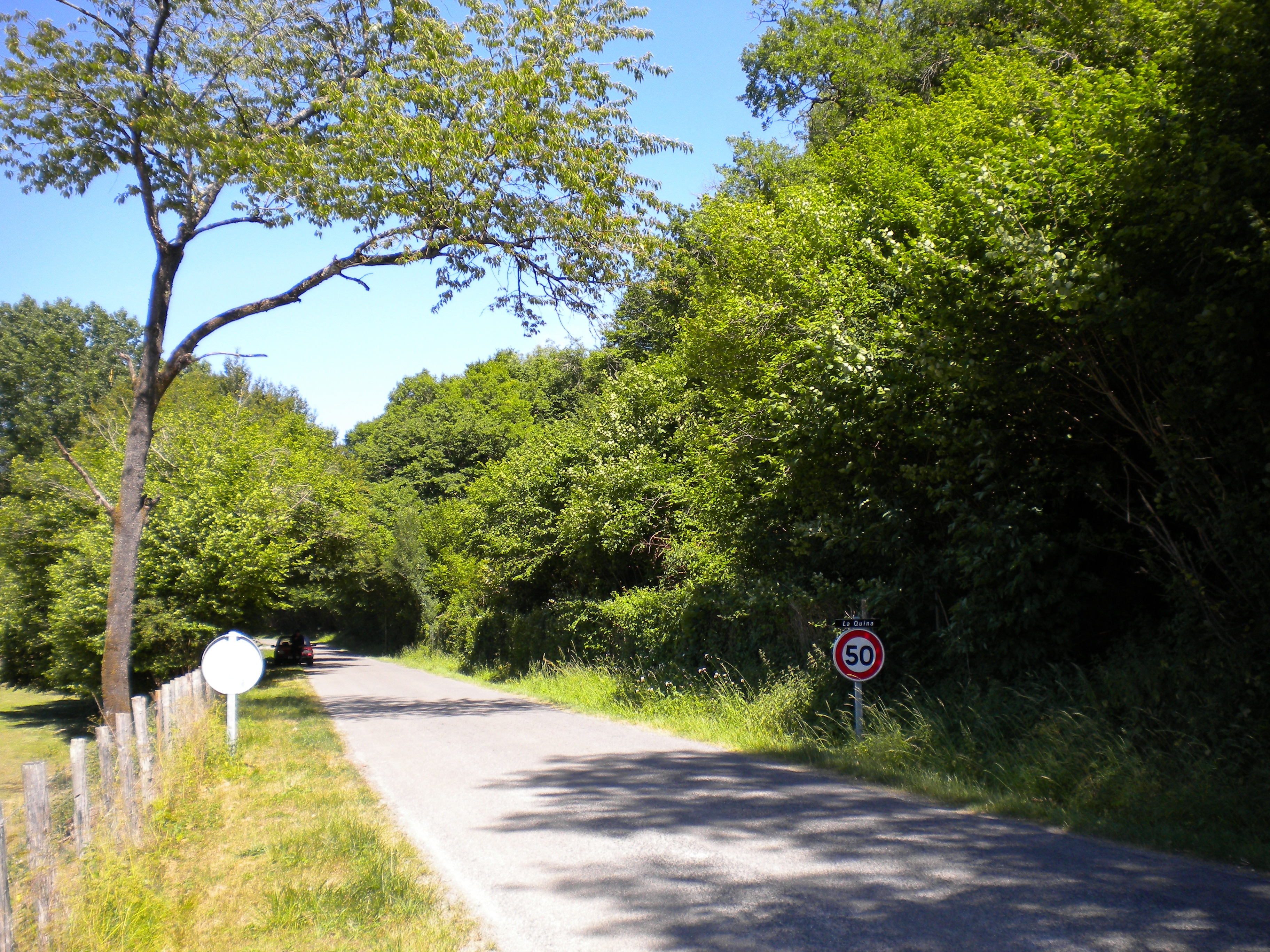 The paleolithic sites of La Quina, Gardes-le-Pontaroux, Charente, France. The two sites are on the right side of the Pontaroux-Blanzaguet road, hidden by the vegetation underneath the overgrown limestone cliff.